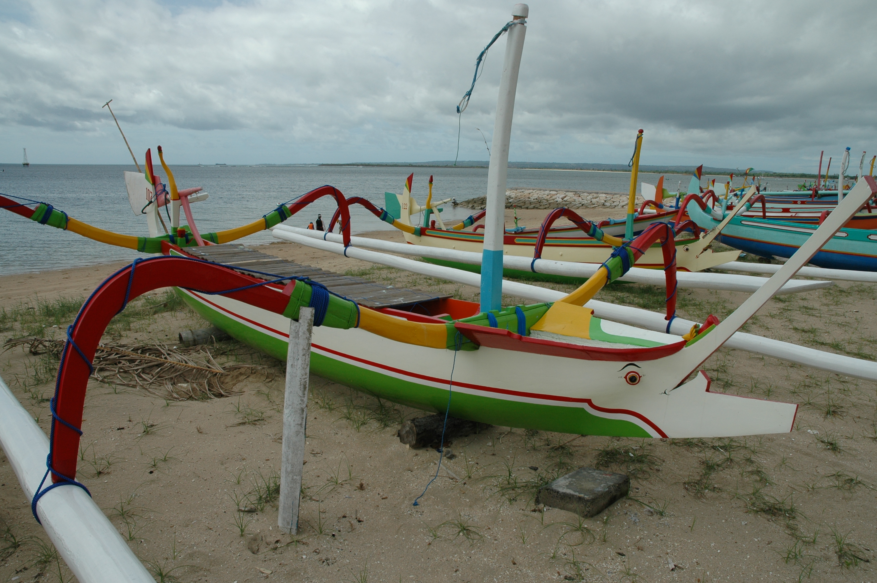 Balines boat on Sanur beach